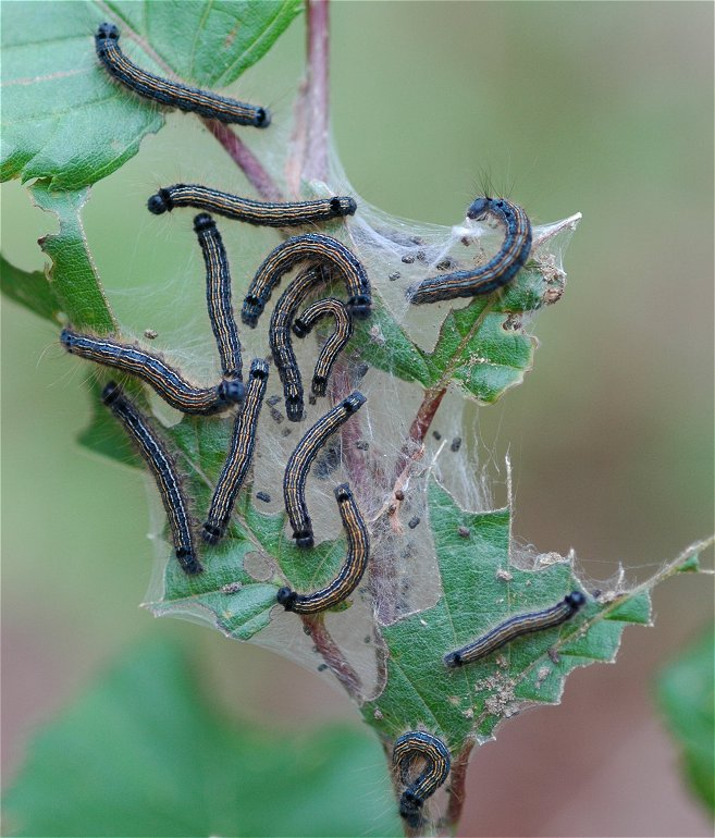 Malacosoma neustria (Host: Carpinus betulus)